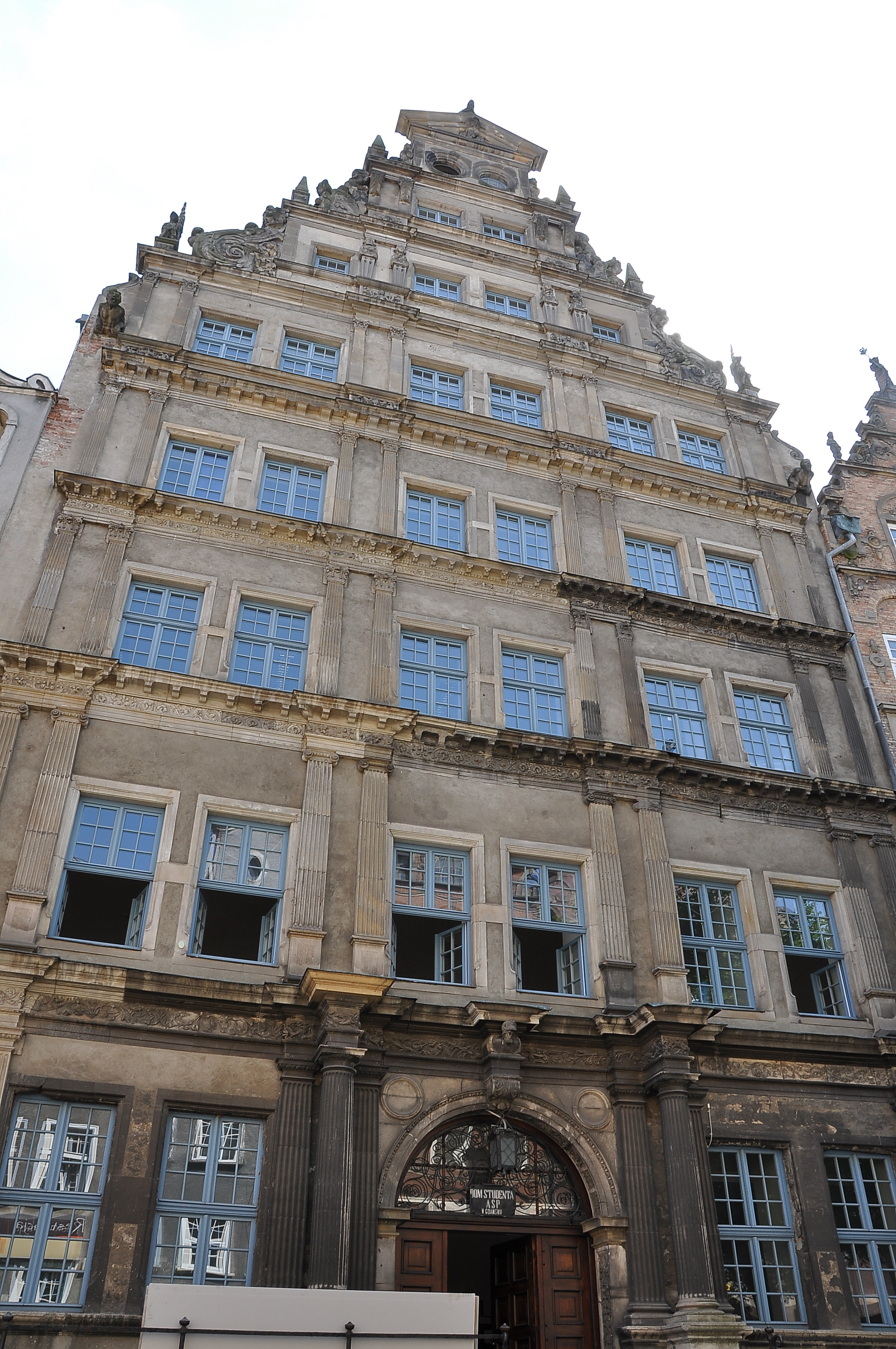 English House in Chlebnicka Street Nr 16 in Gdansk at Poland